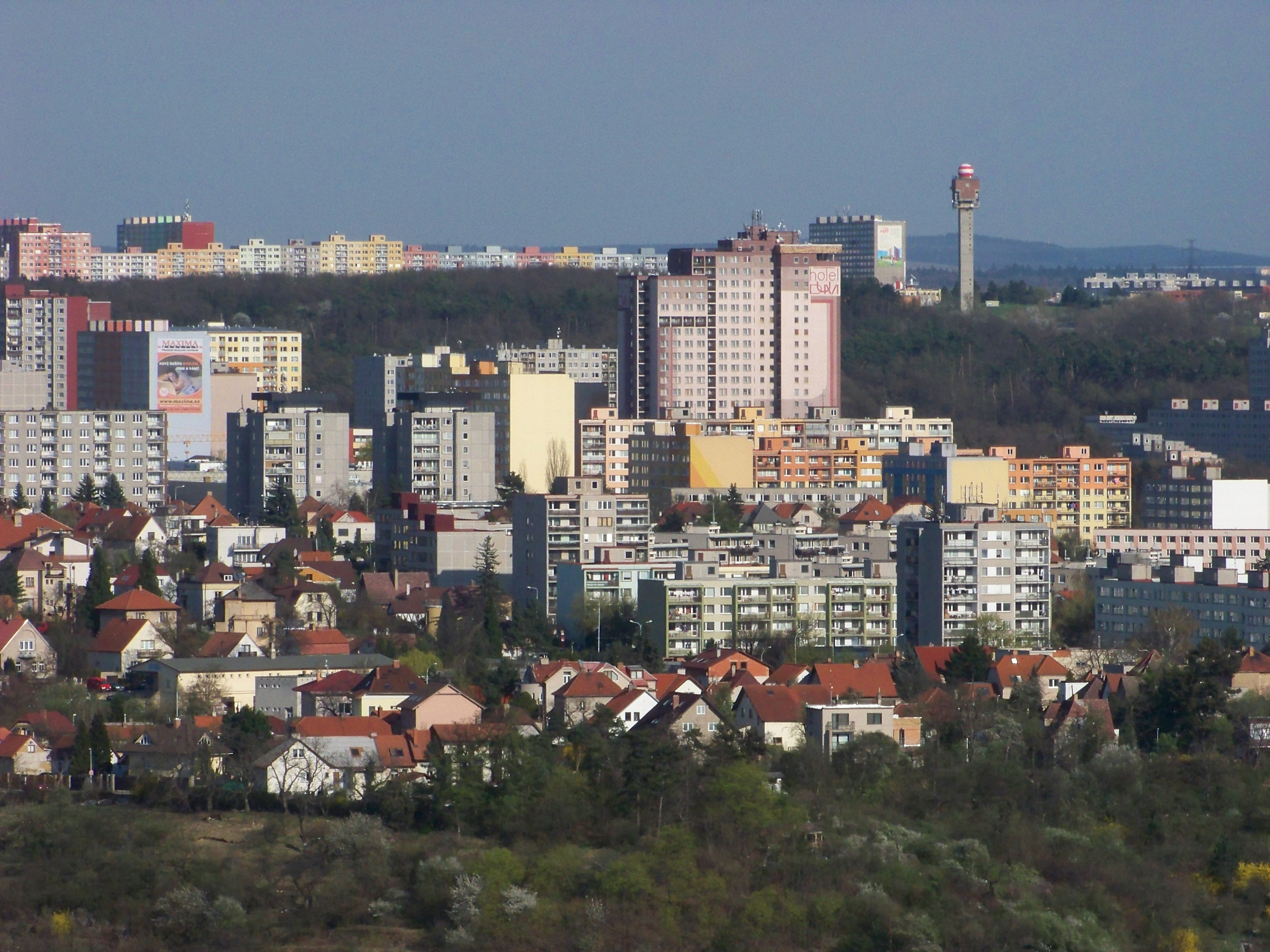 Prague, the Czech Republic. A view of Modřany from Saint John of Nepomuk Church in Chuchle Forest.